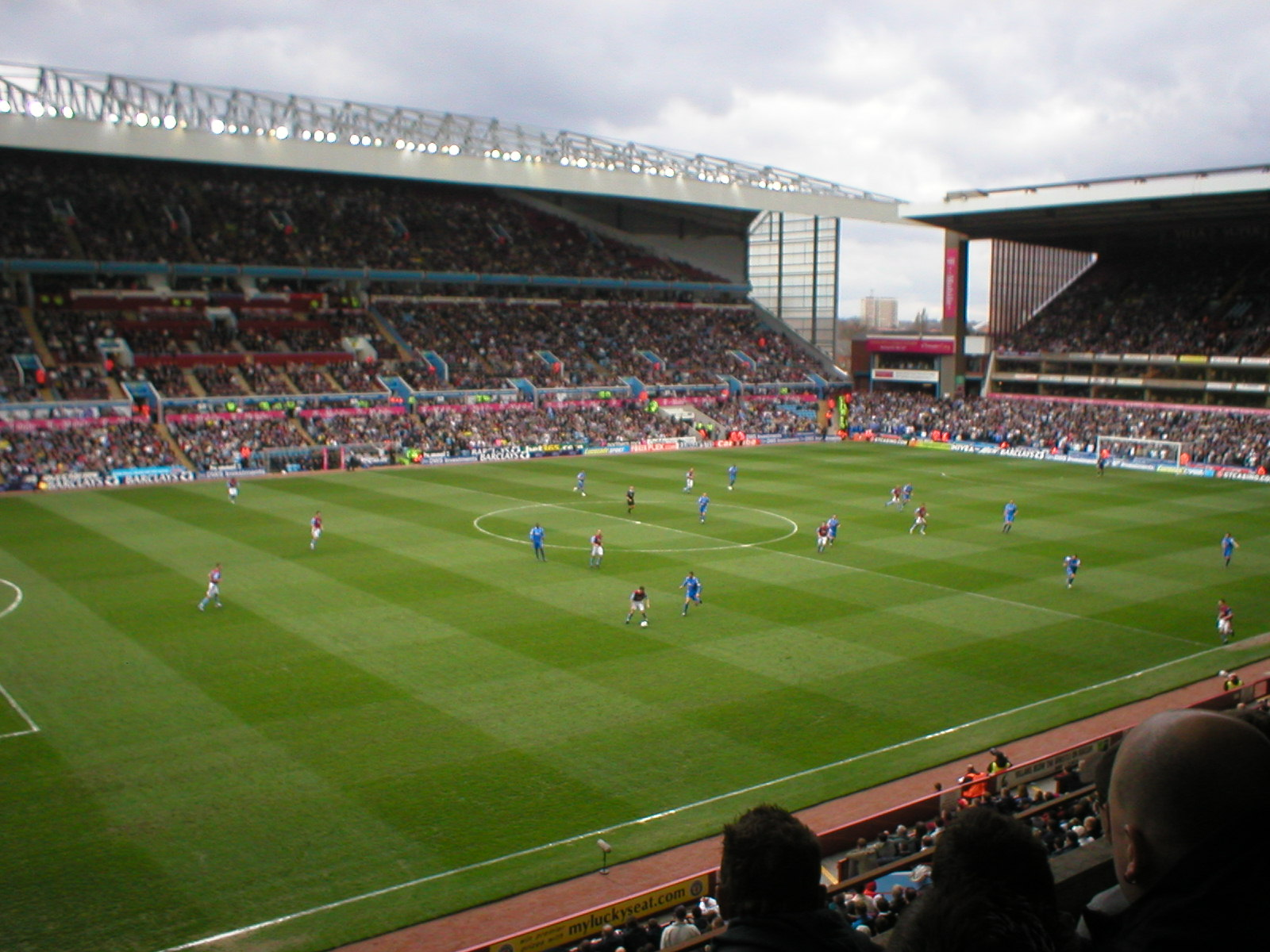 Aston Villa vs Birmingham, April 2006